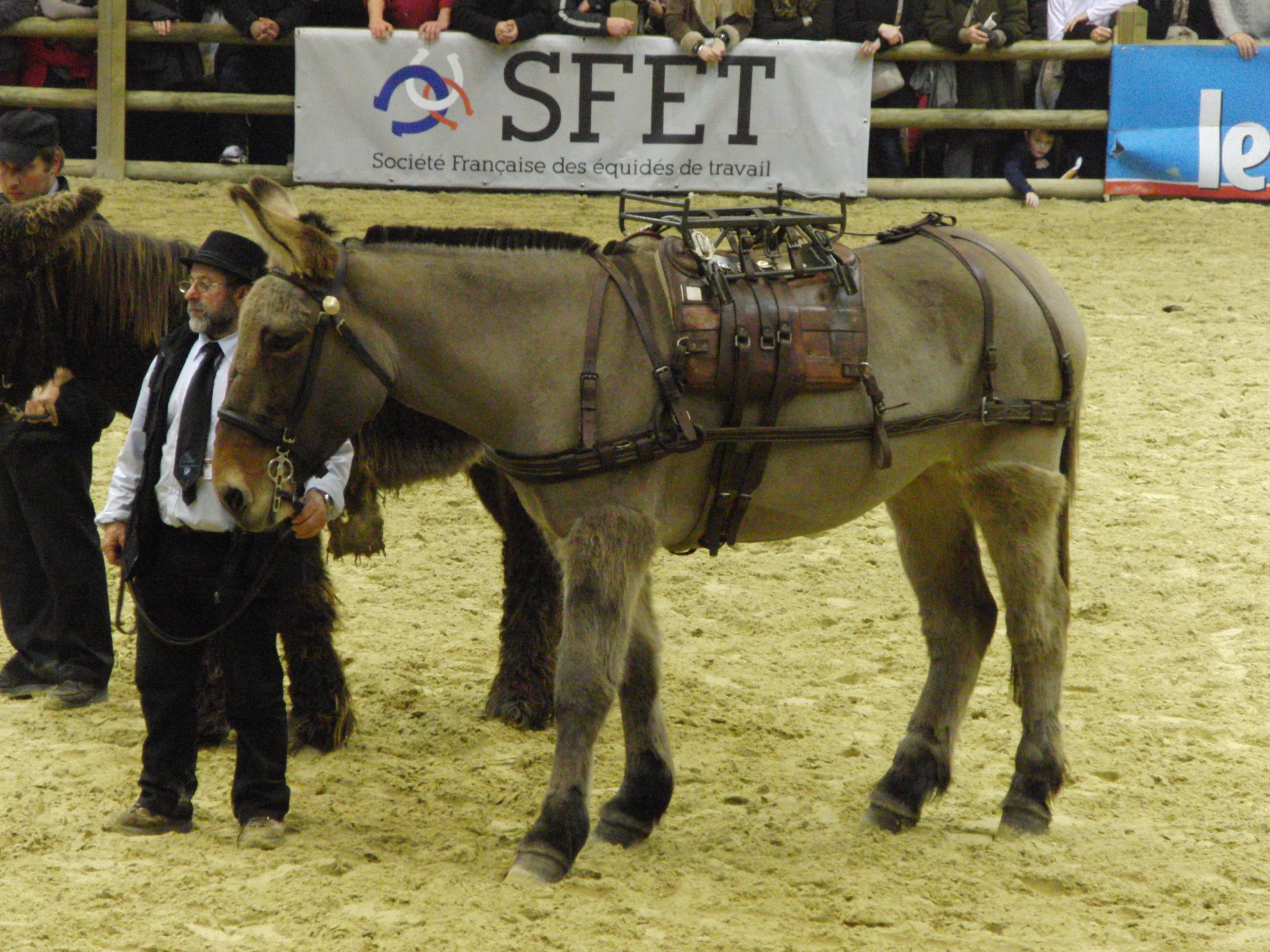 A Poitevin mule at the 2013 International Agriculture Show in Paris, France